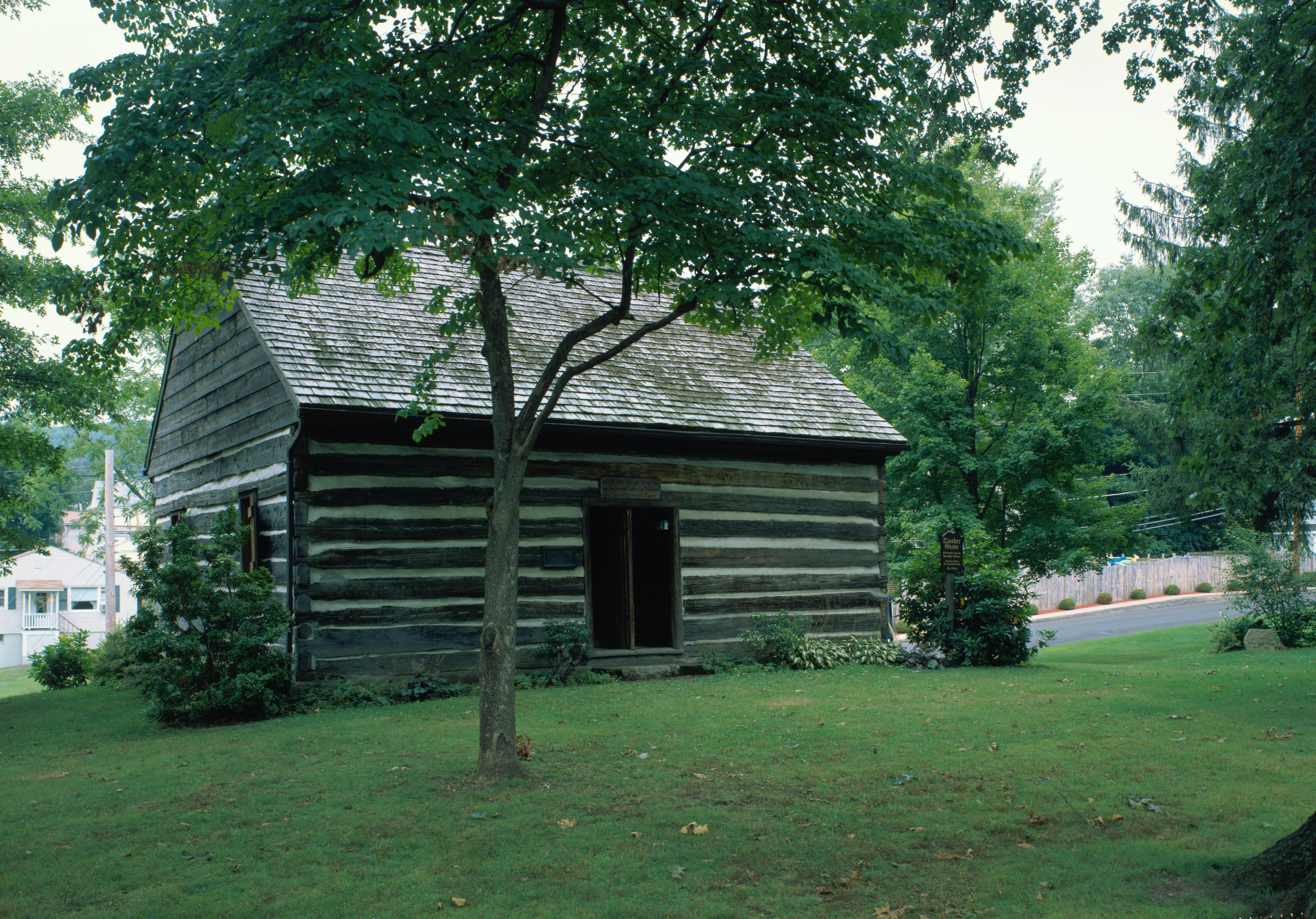 Southern side of the Catawissa Friends Meetinghouse, located along South Street near its intersection with Third Street in Catawissa, Pennsylvania, United States. Built in 1789, it is listed on the National Register of Historic Places. A historic marker is visible on the right side of the building behind the tree.